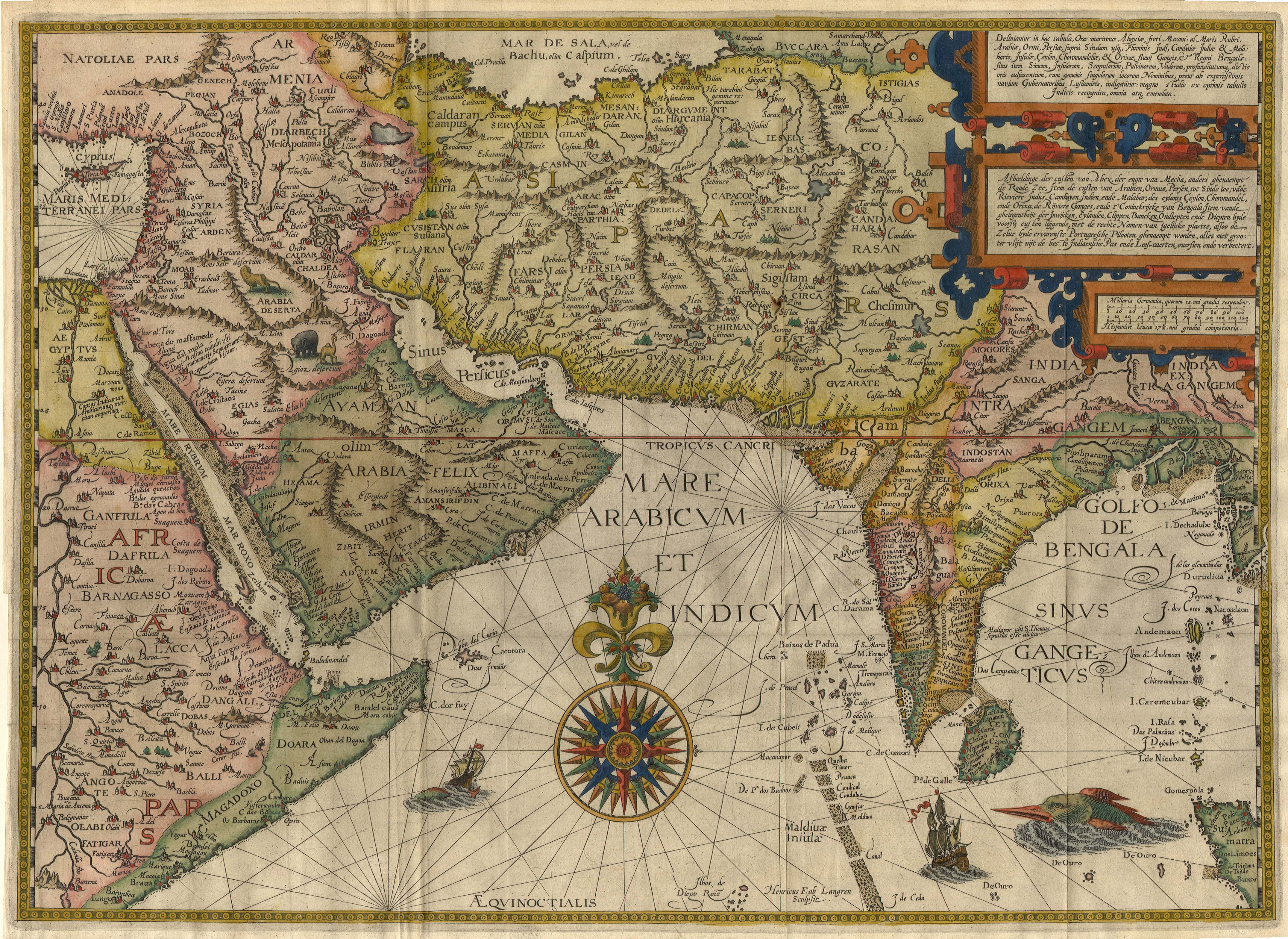 Deliniantur in hac tabula ... Afbeeldinge der - Produced in Amsterdam FIRST edition: 1596 Original size: 38.1 x 53.3 cm Produced using copper engraving